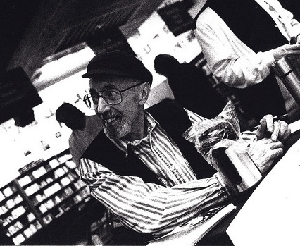 Benjamin Saltman in Berkeley, California